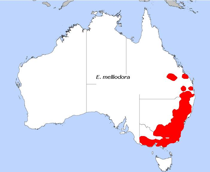 E. melliodora